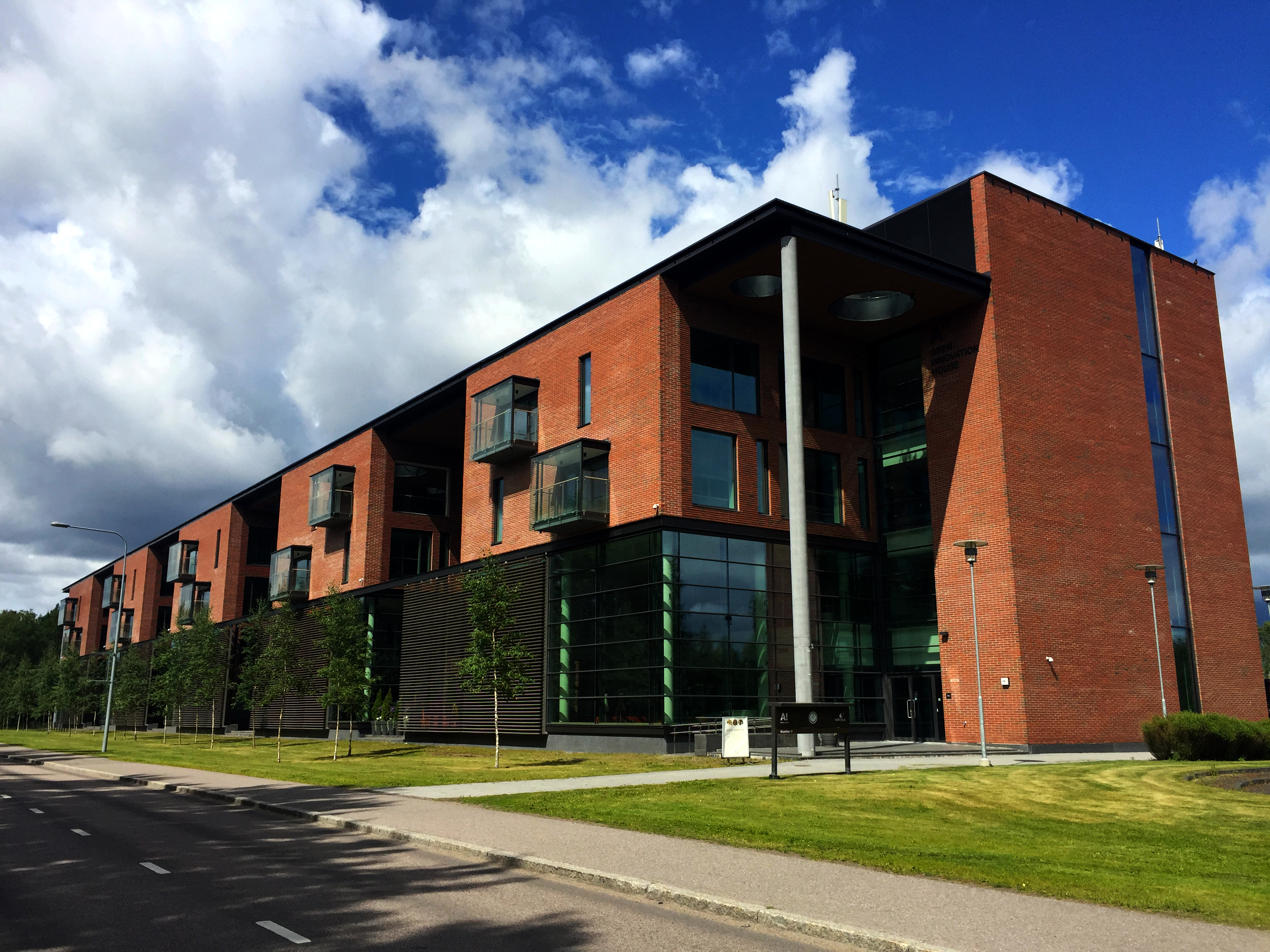 Open Innovation House from Maarintie.